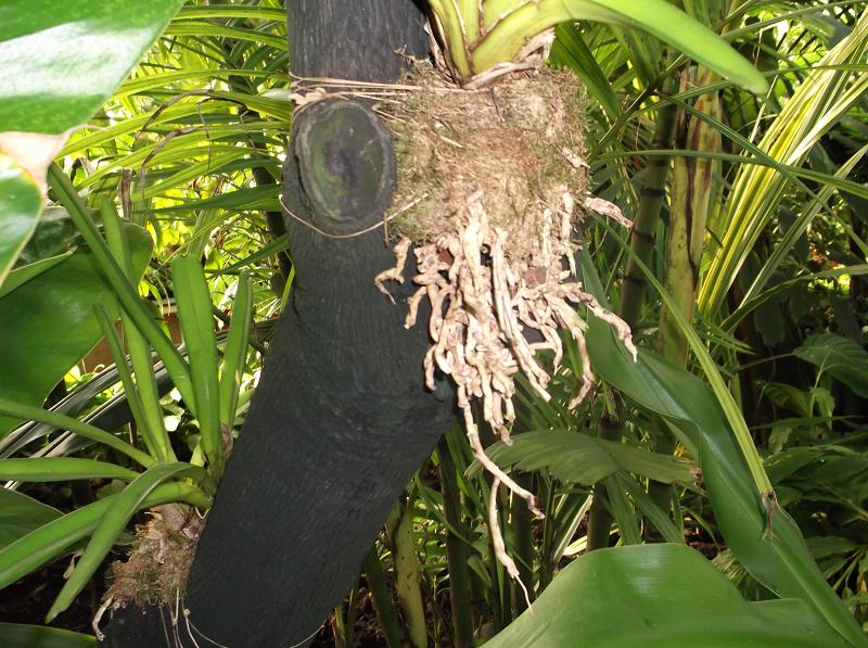 The trunk of a Ceylon Ebony or India Ebony (Diospyros ebenum) in Kew Gardens, England.